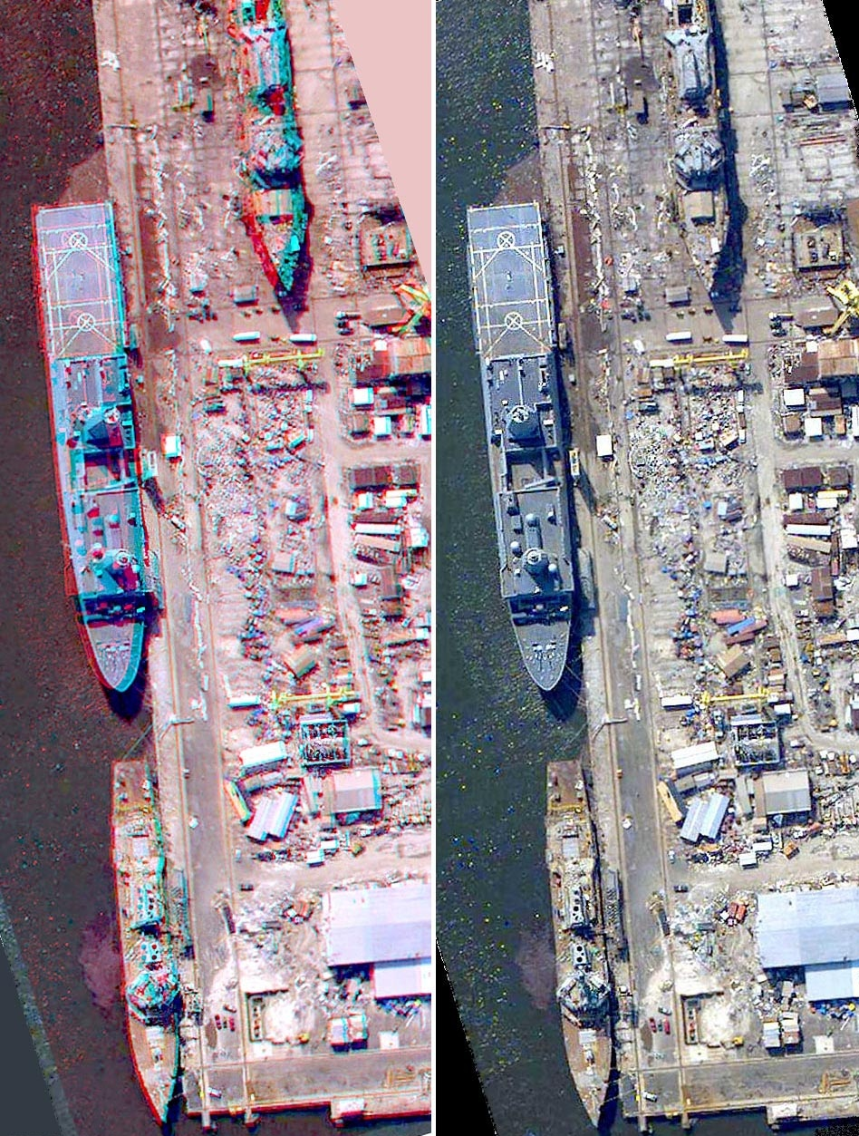 Damage to Ingalis Shipyard, Pascagoula, Mississippi, after Hurricane Katrina. Stereo anaglyph photo.